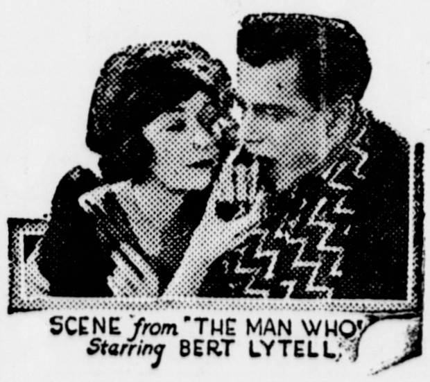 The Man Who is a 1921 American silent comedy film. This is from a newspaper.